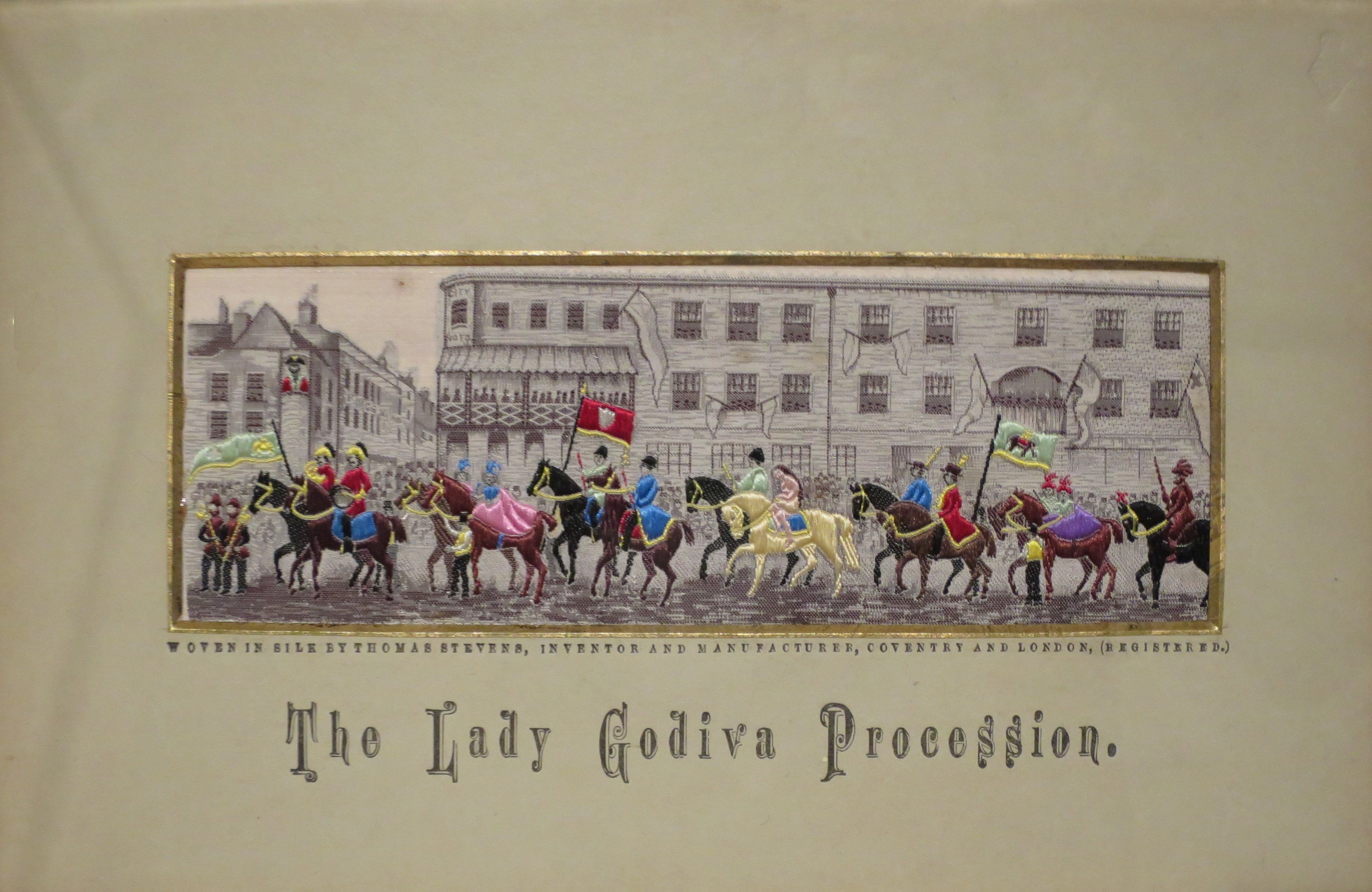 'pThe Lady Godiva Processionp' by Thomas Stevens, 1842-1883, Stevengraph, Jacquard woven silk, Honolulu Museum of Art accession 2015-13-01